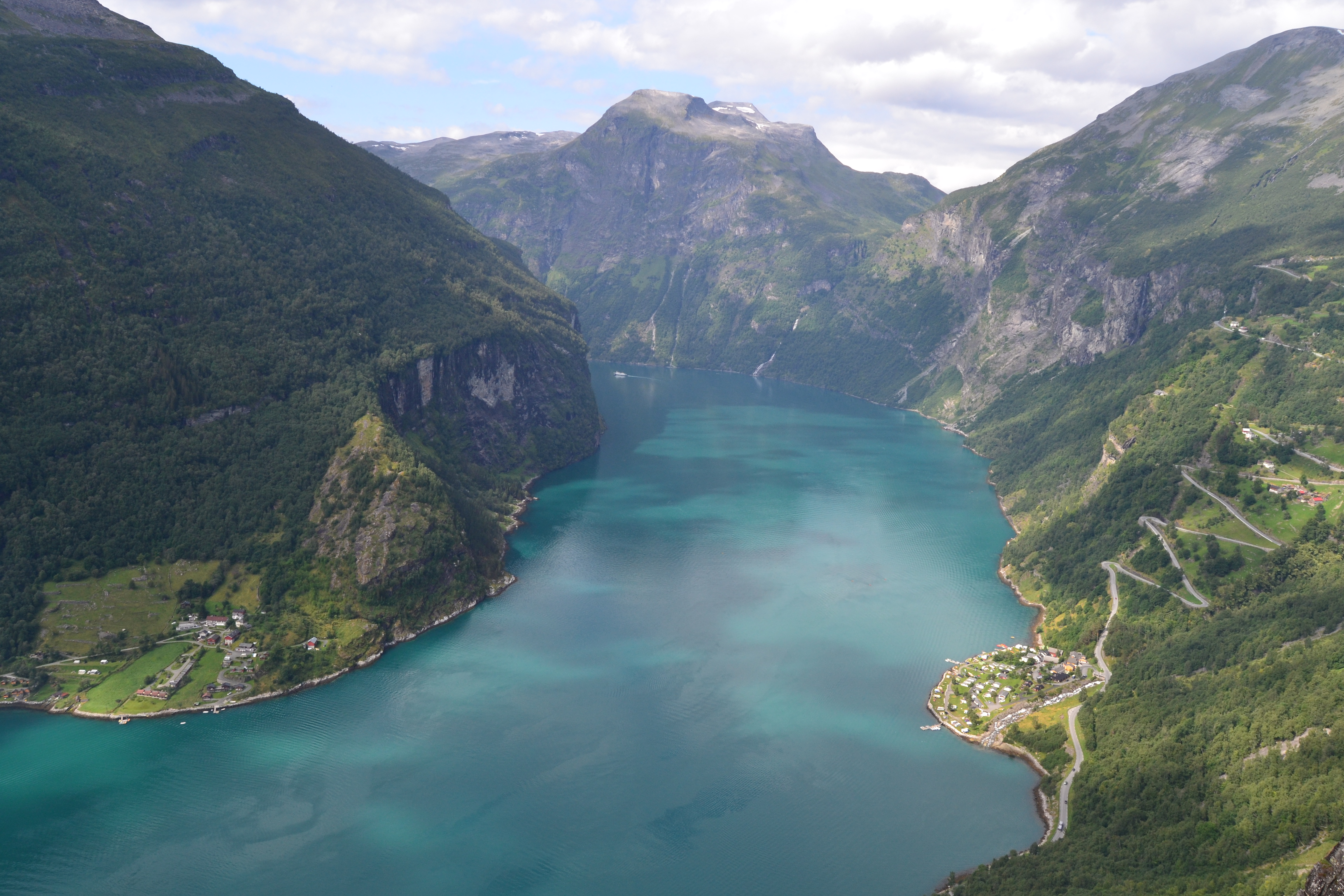 View on the Geirangerfjord from Løsta